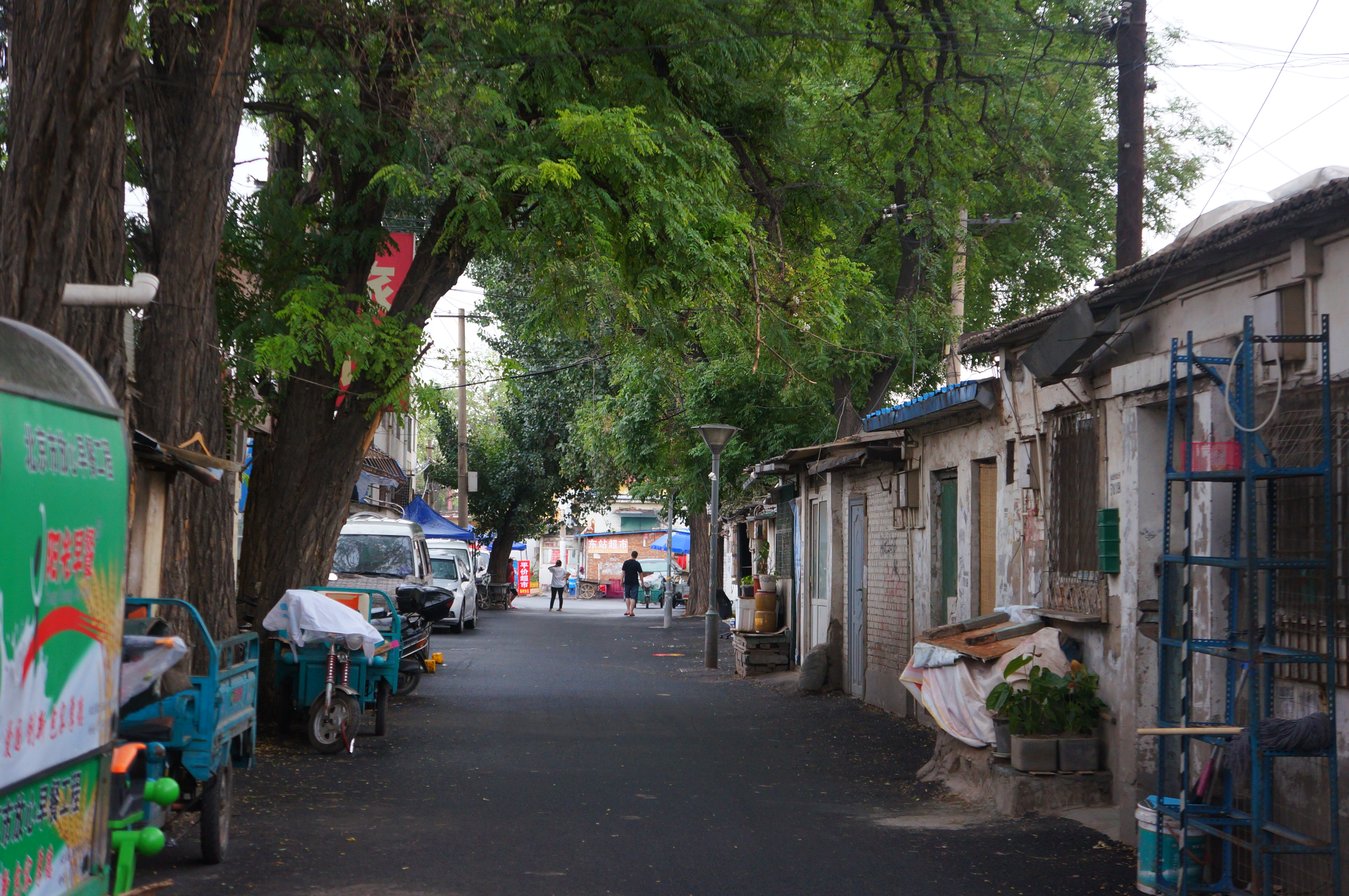 201606 Shengou Village